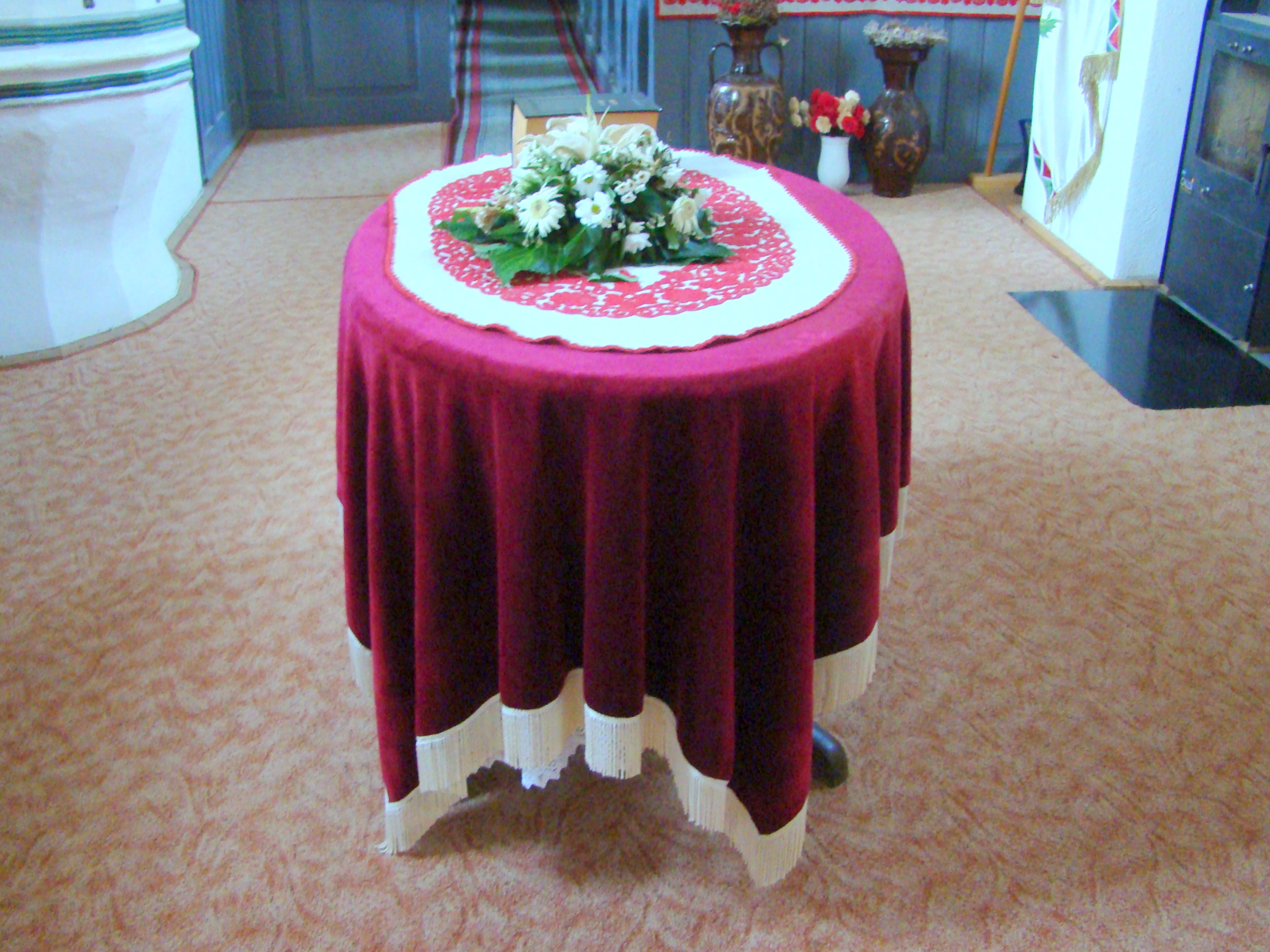 Reformed church in Forțeni, Harghita county, Romania